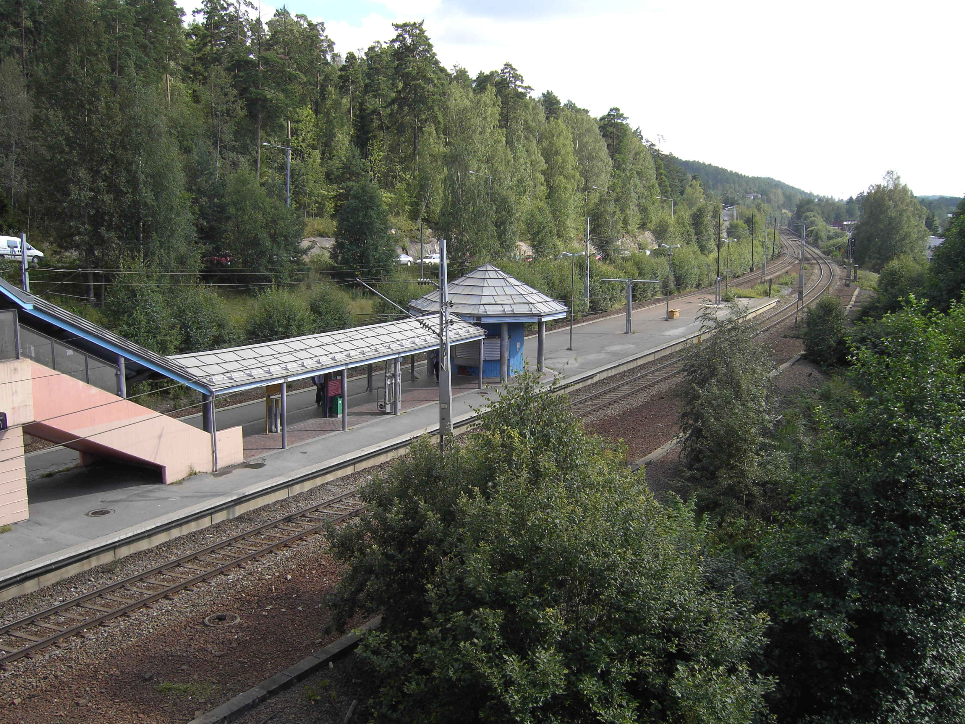 Holmlia trainstop, platform south